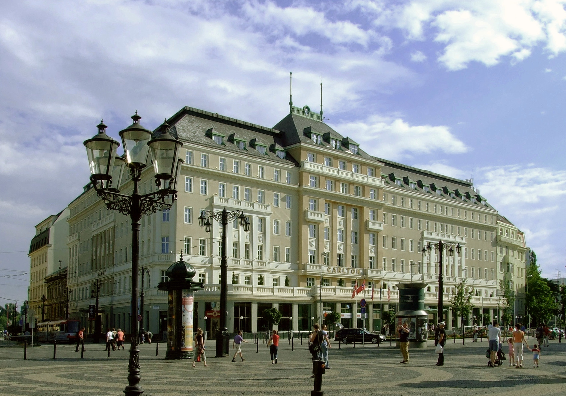 Hviezdoslavovo námestie square in Bratislavahelp